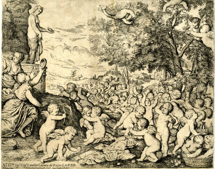 The Worship of Venus